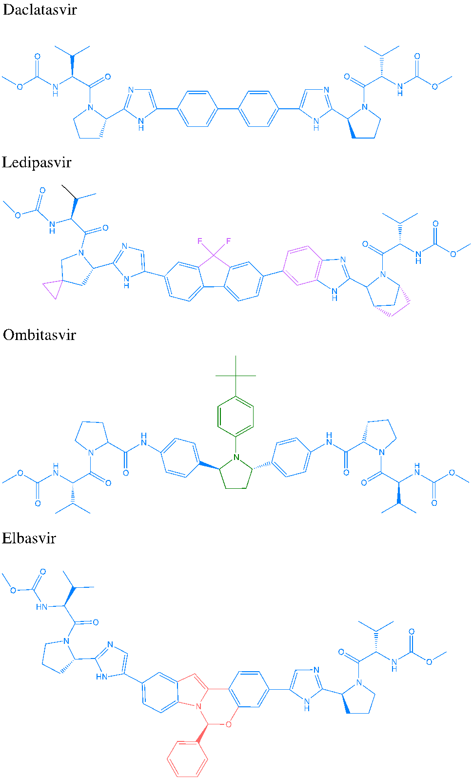 There are currently (25. July 2016) four NS5A inhibitors clinically approved, while there are many more in development or undergoing clinical trials. Daclatasvir was the first clinically approved NS5A inhibitor. Structural similarities can be seen between daclatasvir and the more recent inhibitors as shown in blue